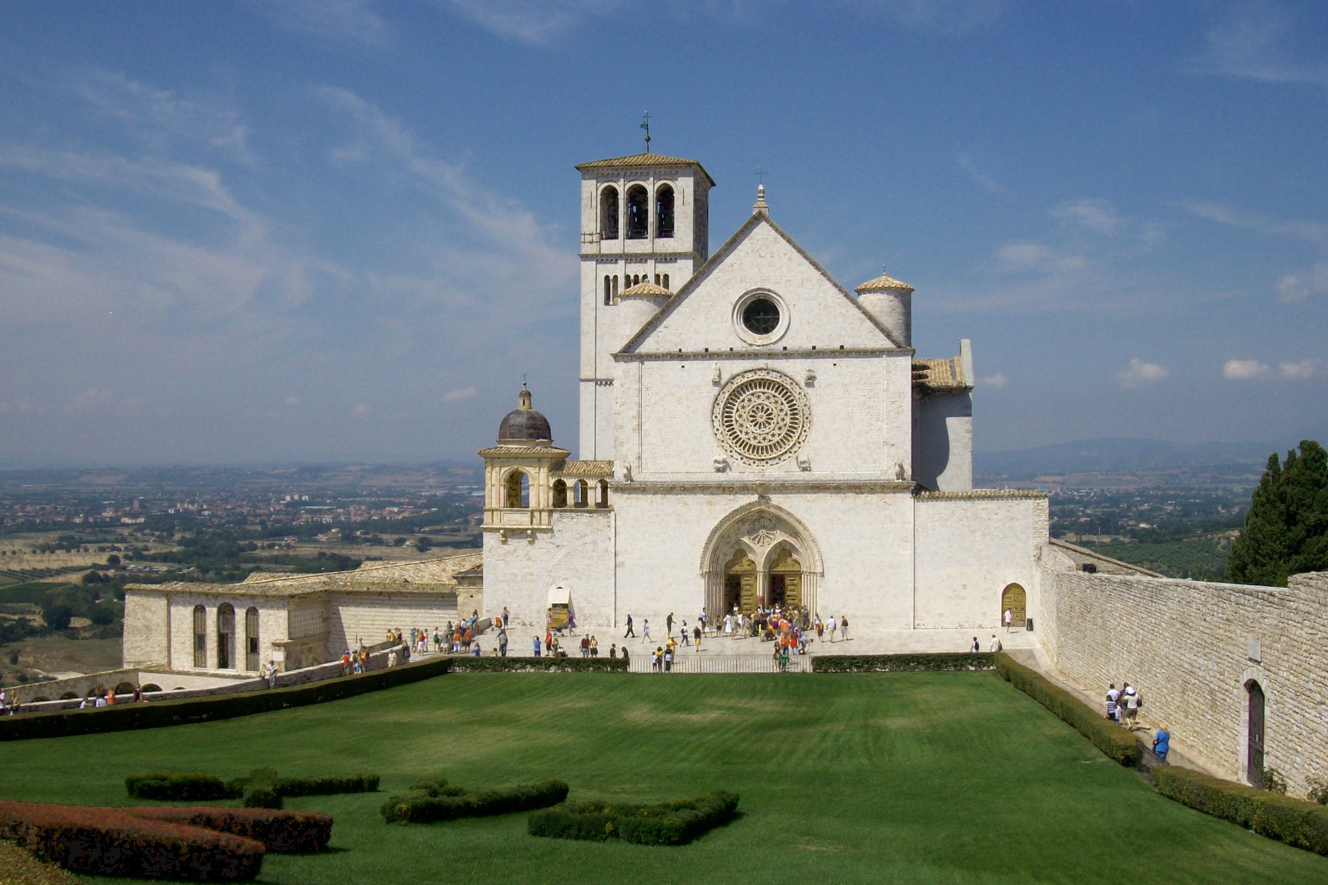 Front view of the upper Basilica of St. Francis of Assisi